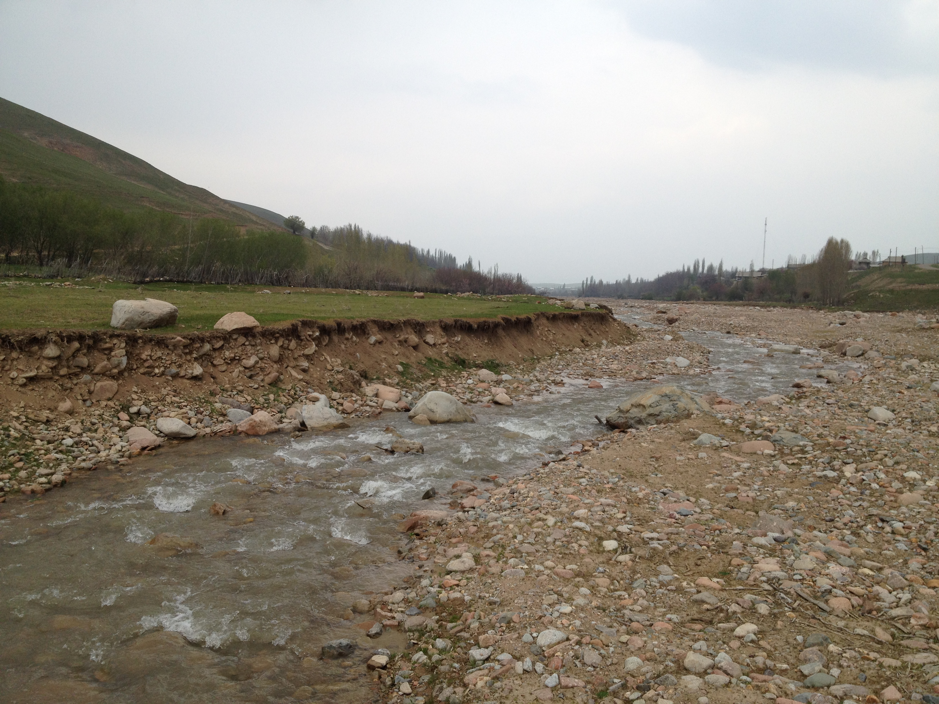 Abjaz-Say river in the middle reaches Oʻzbekcha/ўзбекча: Objazsoy o`rta oqimida